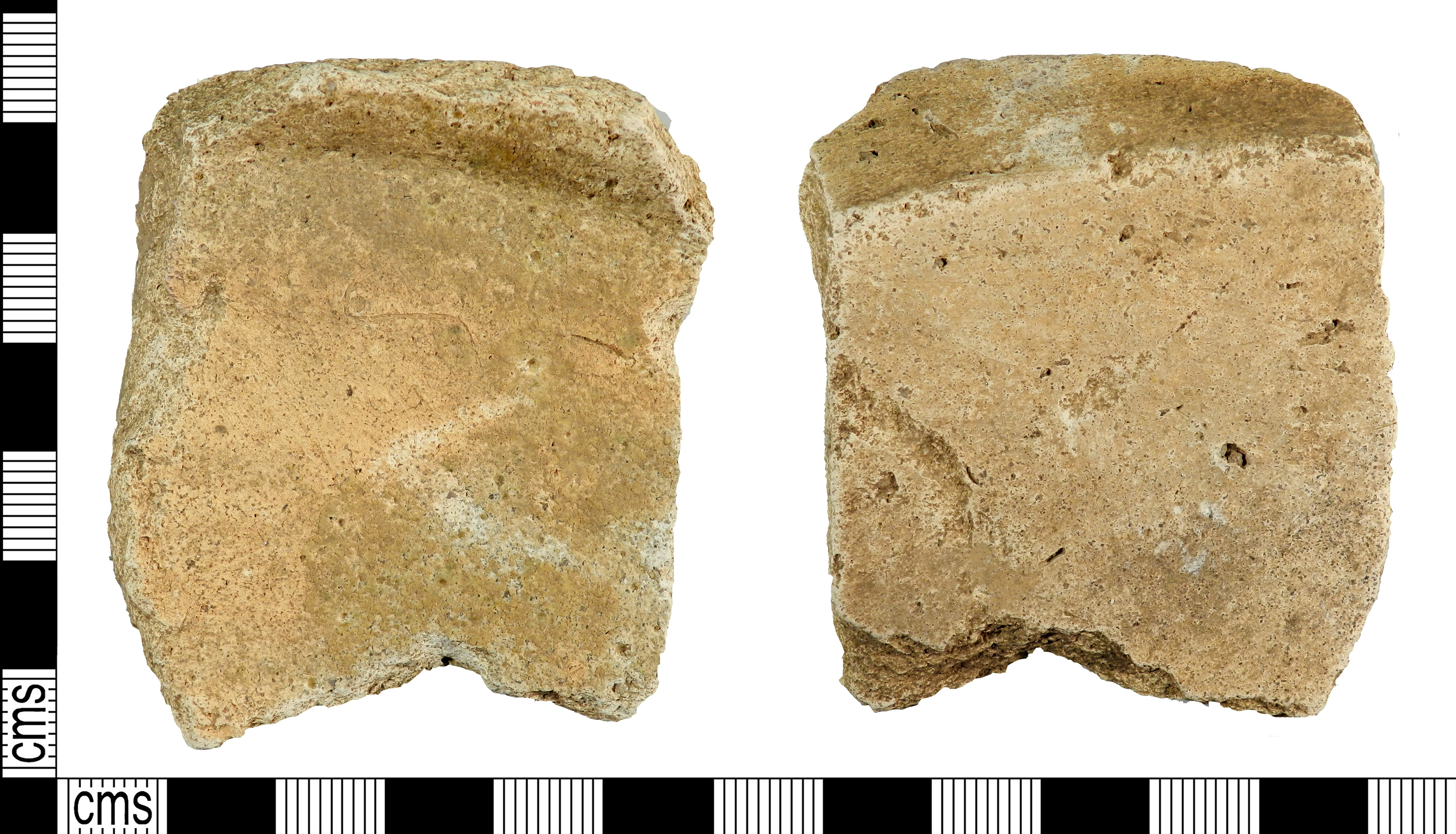 A fragment of a wheel thrown ceramic vessel of medieval date (AD 1200-1450). The sherd is a fine gritty sandy ware of buff colour and is possibly the base from a large storage jar. Both internal and external surfaces are abraded and very minor amounts of a yellow/ green glaze are retrained on the internal surface. The sherd is flat with a small lip rising into the slope of the body of the vessel.